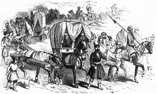 Illustration in page 197 of Lady Sheil's book on Persia, depicting a caravan of Persian pilgrims of Karbala.